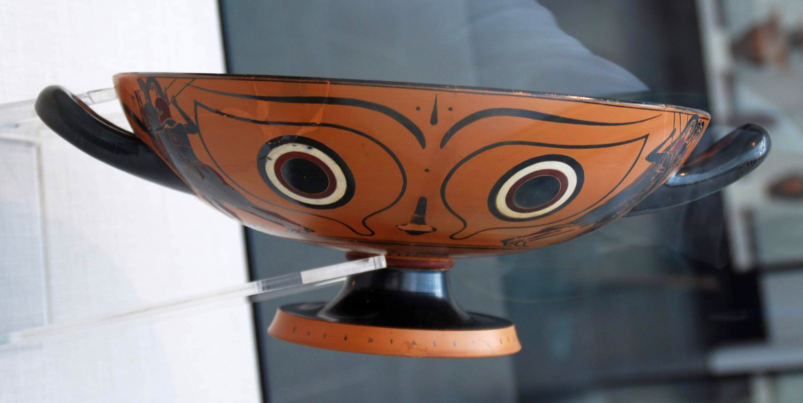 Dionysos in a ship, sailing among dolphins. Attic black-figure kylix, ca. 530 BC. From Vulci.